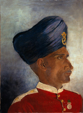 Sepoy of the Indian Infantry, 1900 (c). Oil on canvas by unknown artist, 1900 (c). The sepoy (infantryman) is wearing a red jacket with white facings and blue turban. The Indian Army had adopted khaki for service dress in 1885, but Indian infantry regiments continued to wear a red dress tunic. NAM Accession Number NAM. 1978-06-17-1 Copyright/Ownership National Army Museum, London Location National Army Museum, Study Collection